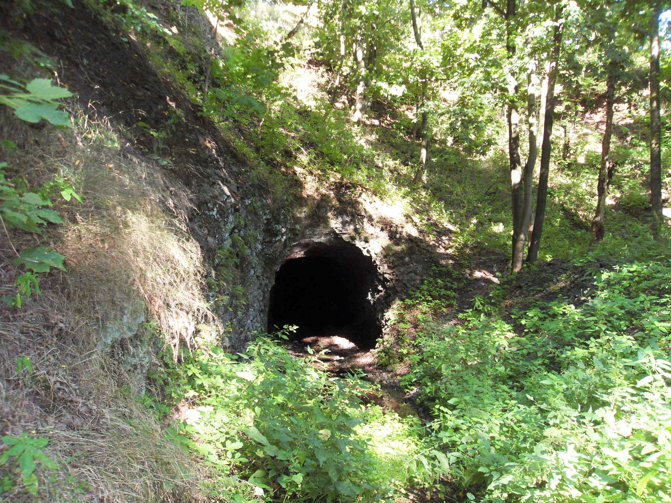 T-S 80a U kanceláře unfinished entry casemate, Stachelberg fortress, Trutnov District, Czech Republic